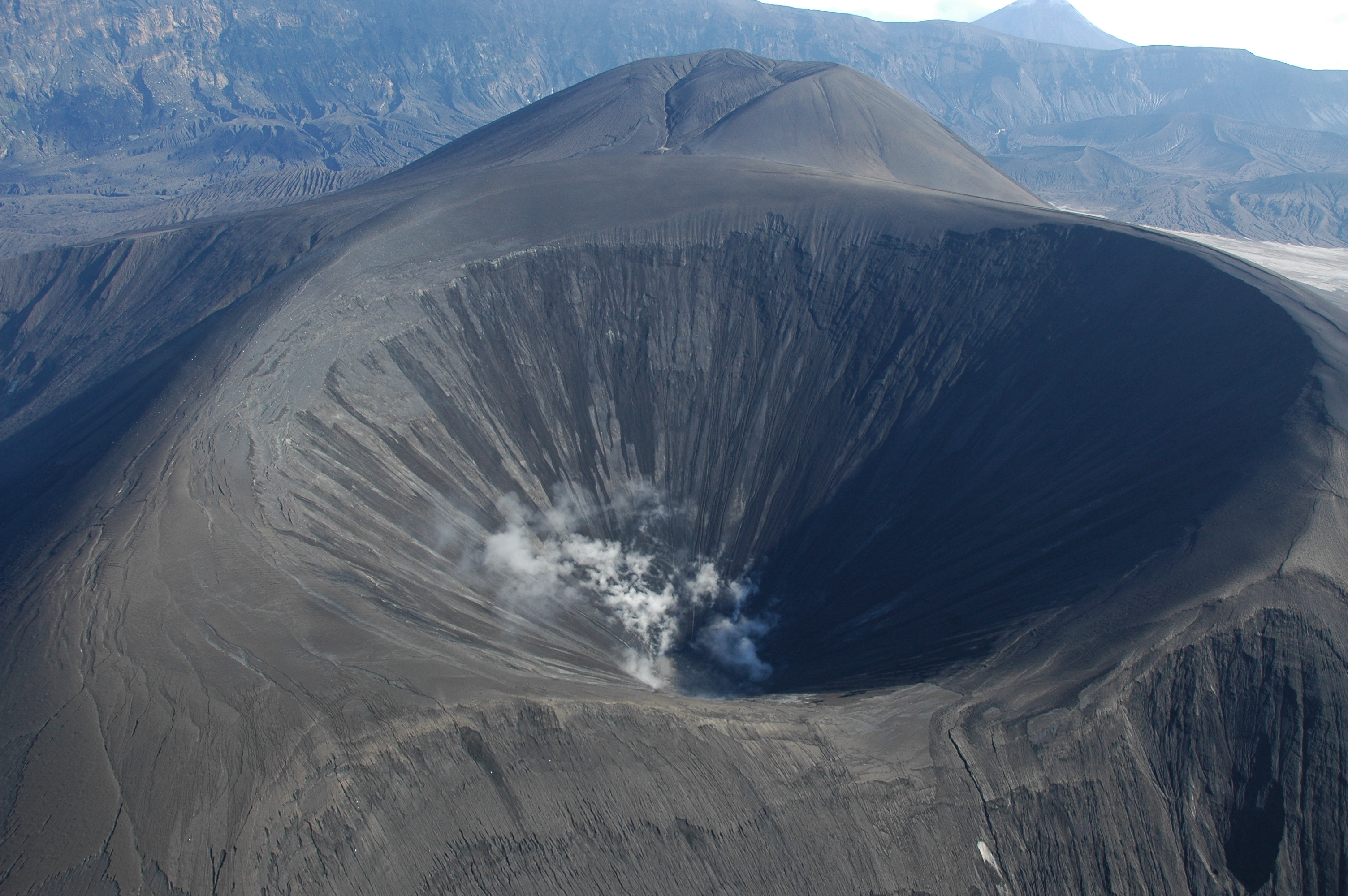 Looking into the new tephra cone with Cone D, mantled thickly by debris, behind it. Tulik in the far distance outside the caldera. We estimated the new cone to rise about 800-900 feet from the old lake level out of the photo to the left. The crater is about 2500 feet across The bottom of the crater is filling with fine debris raining in down the very steep crater walls; on the 10th, we looked in and saw an accumulation of gray lithic blocks probably ballistics similar to what we found on the rim (all old dense lavas). The steaming was from a diffuse area on the crater floor with a few more strongly steaming jets; we could usually smell very faint H2S if flying close to the rim.